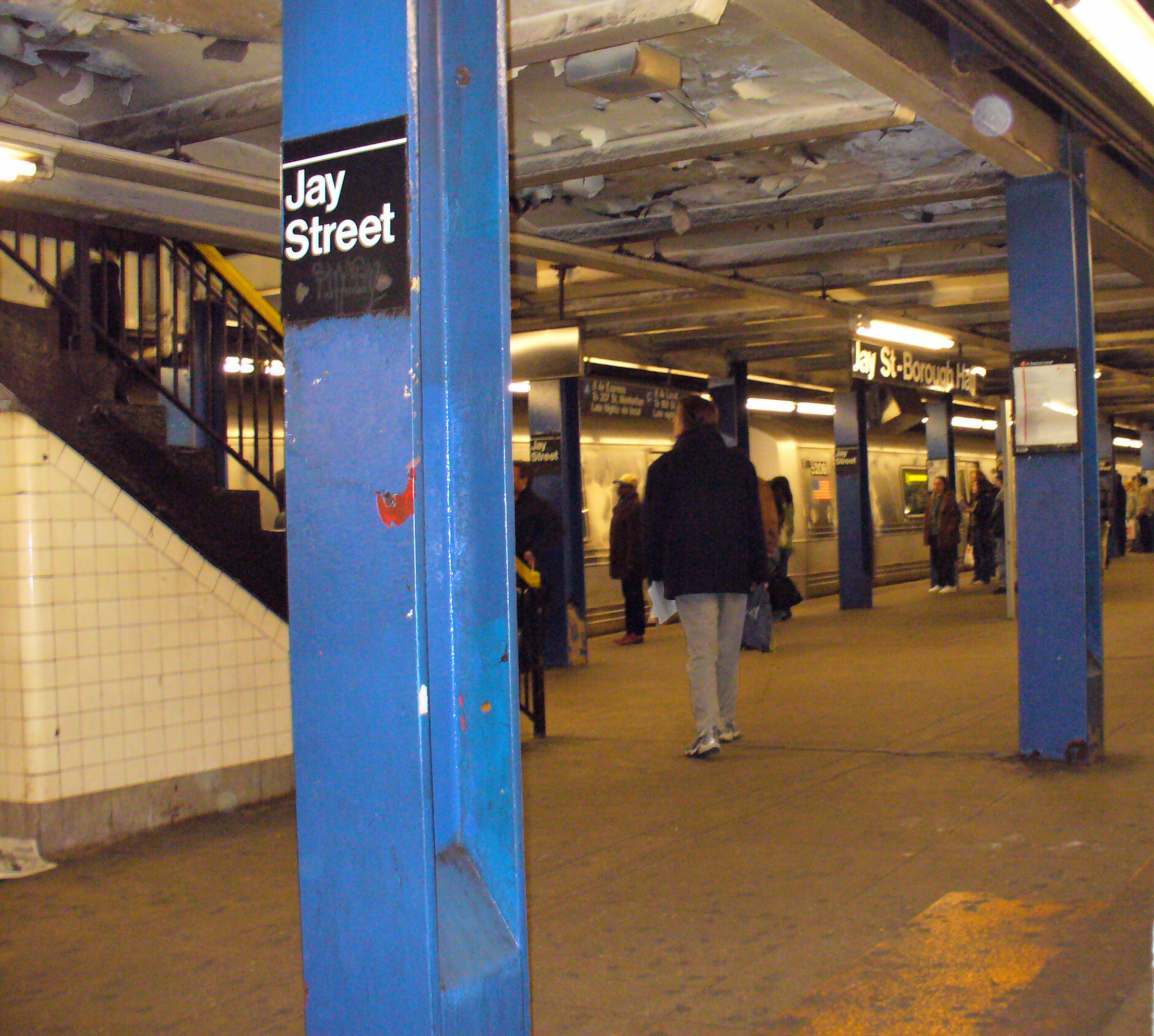 Jay Street Borough Hall F Line NYC Subway Station by David Shankbone